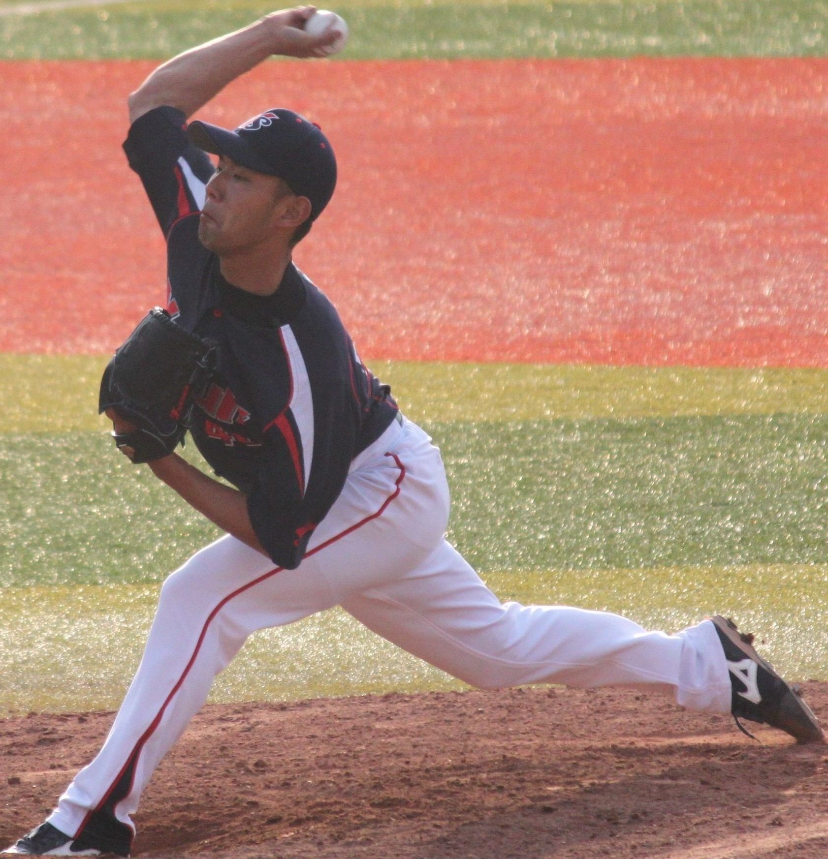 Masato Furuno, pitcher of the Tokyo Yakult Swallows, at Yokohama Stadium.